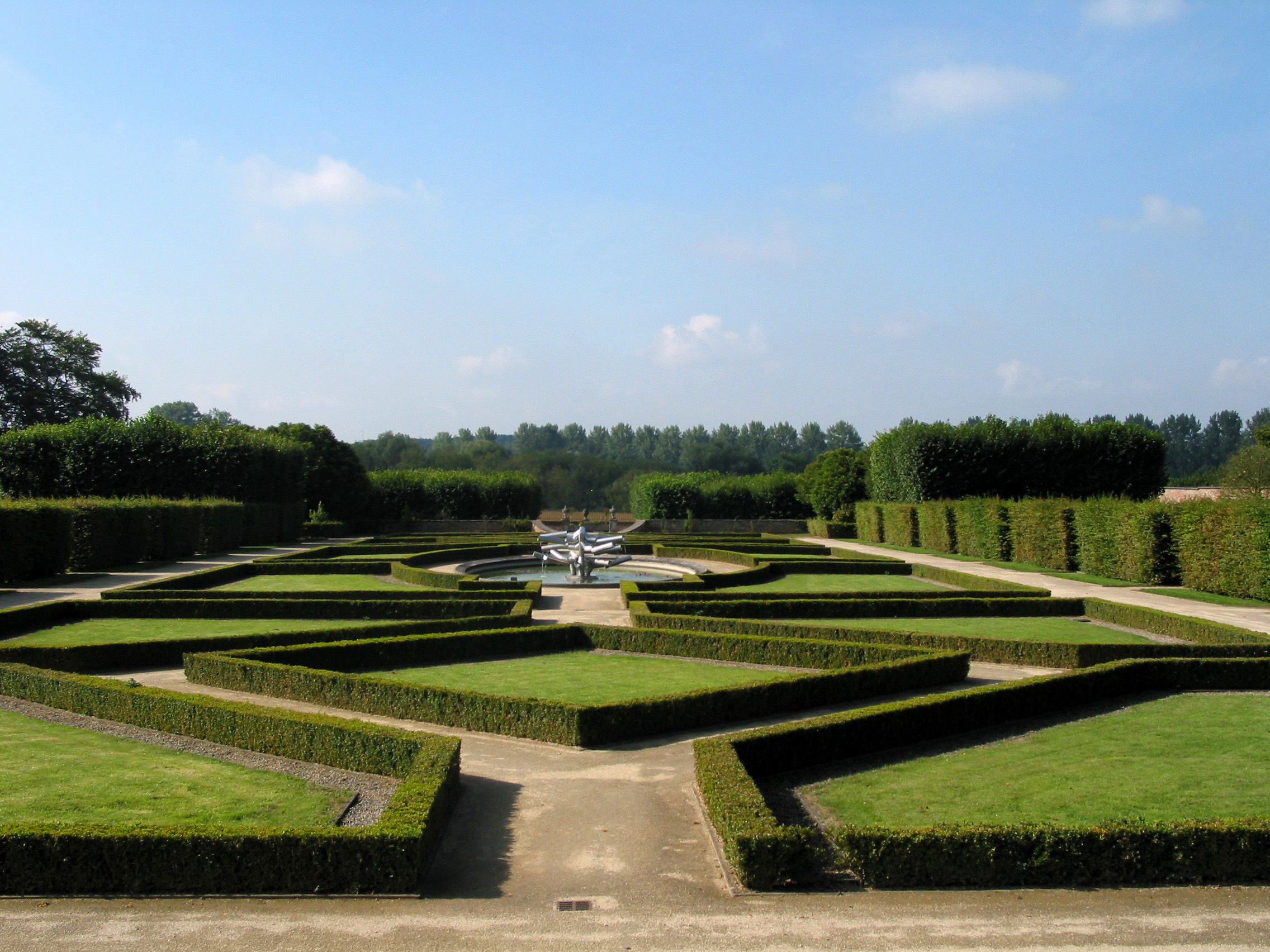 Seneffe (Belgium), the castle gardens - the "Jardin des trois terasses" - (architects: Jules Vacherot - René Pechère).